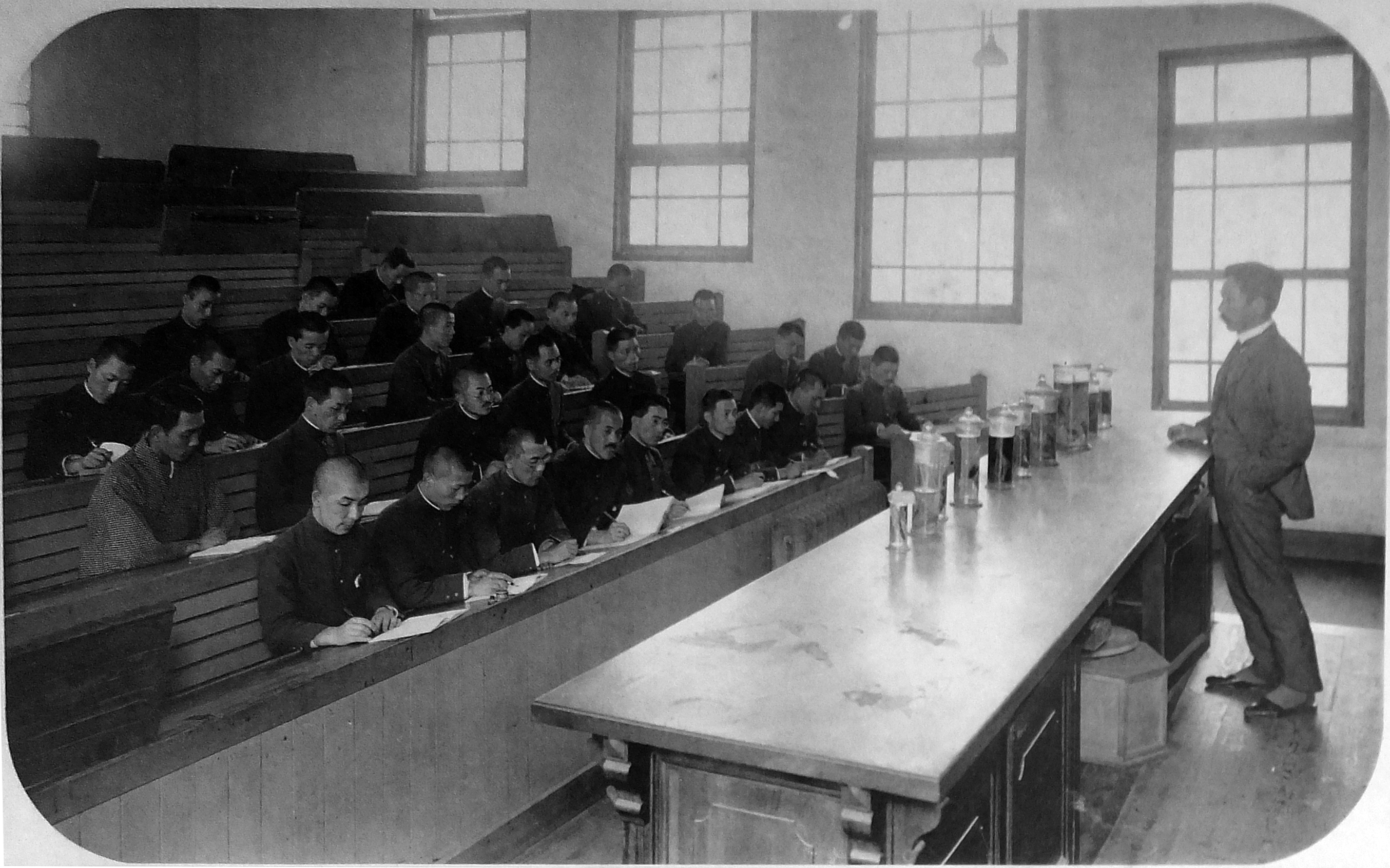 Lecture given by Professor Tawara Sunao at the Imperial Kyushu University in ca. 1919. Photo from a Graduation Album, Medical Faculty, 1920.